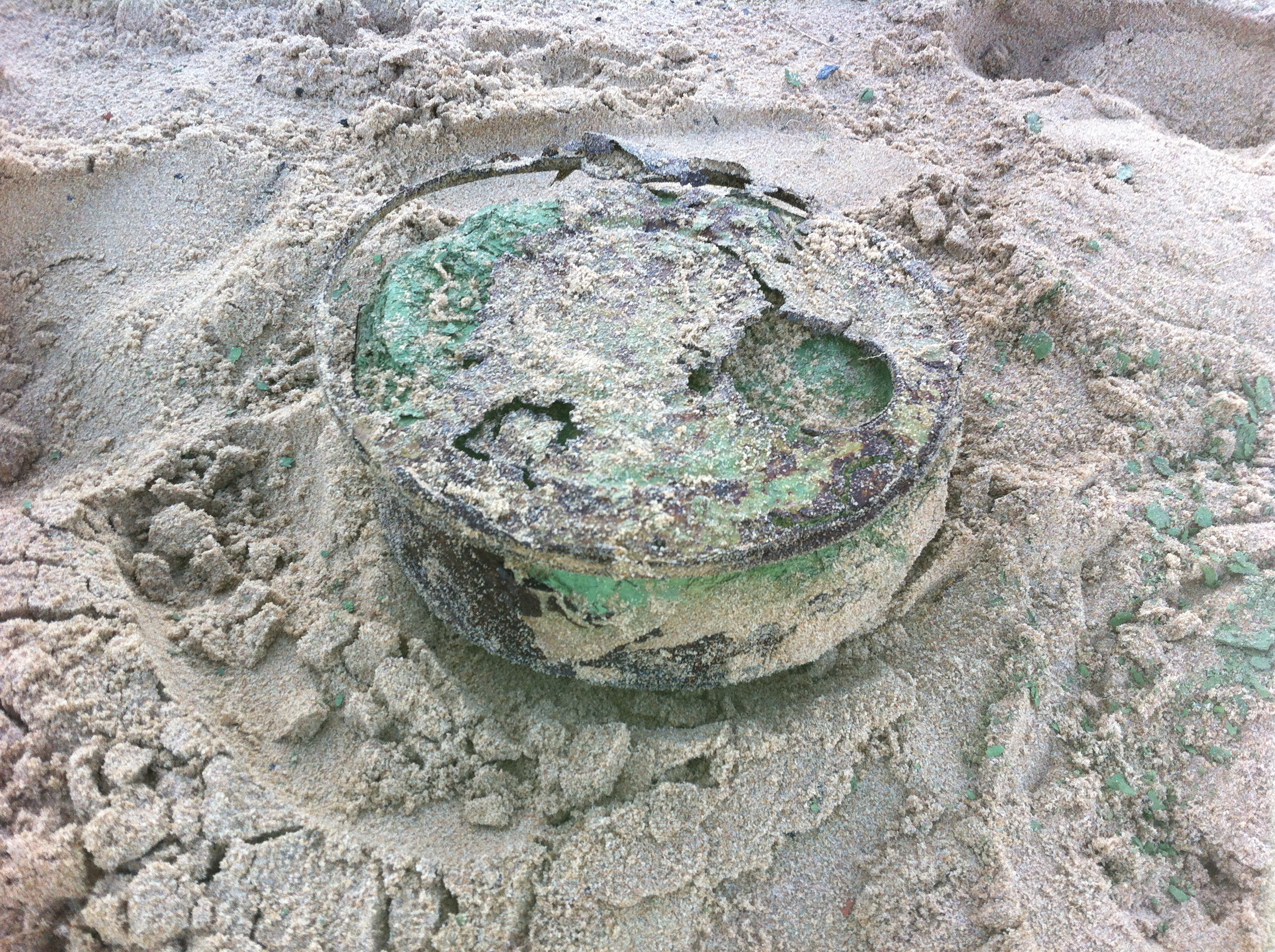 landmine found at Newburgh Aberdeenshire in Dec 2012